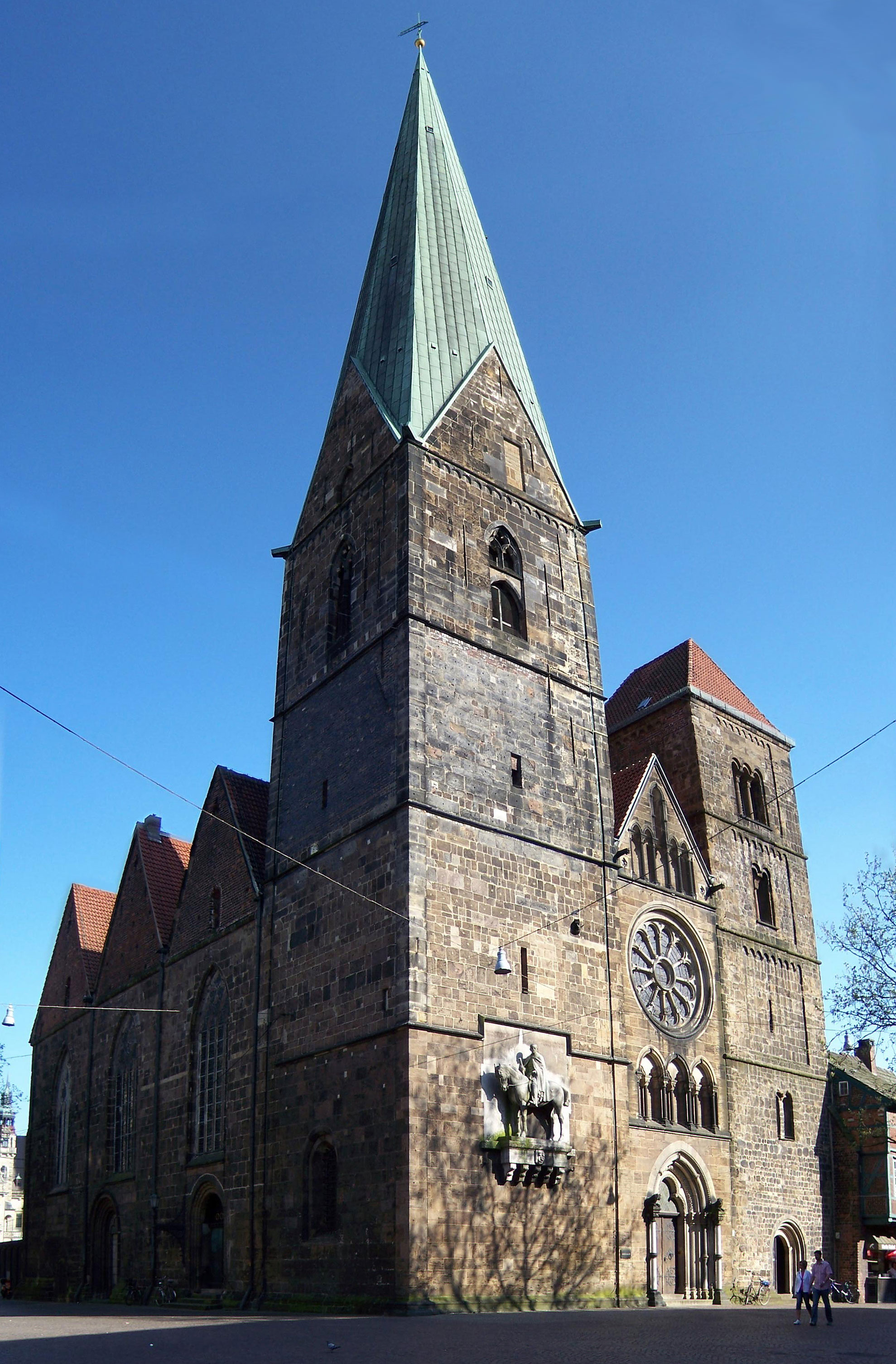 Church of our Lady